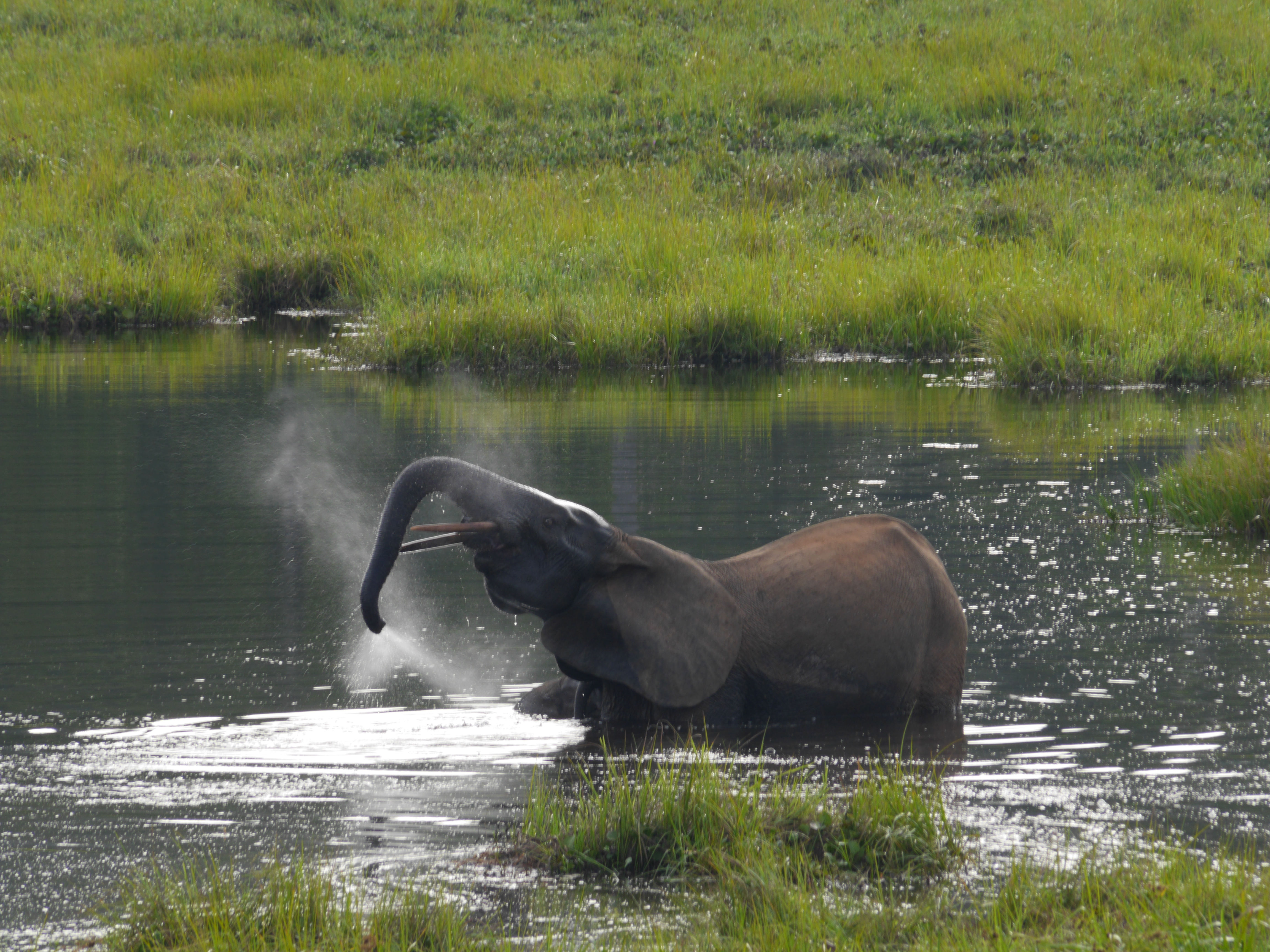 Credit: Dirck Byler/USFWS